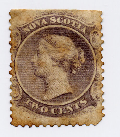 Nova Scotia stamp with the head of Queen Victoria. Scanned in March 2003 by Adrian Pingstone.